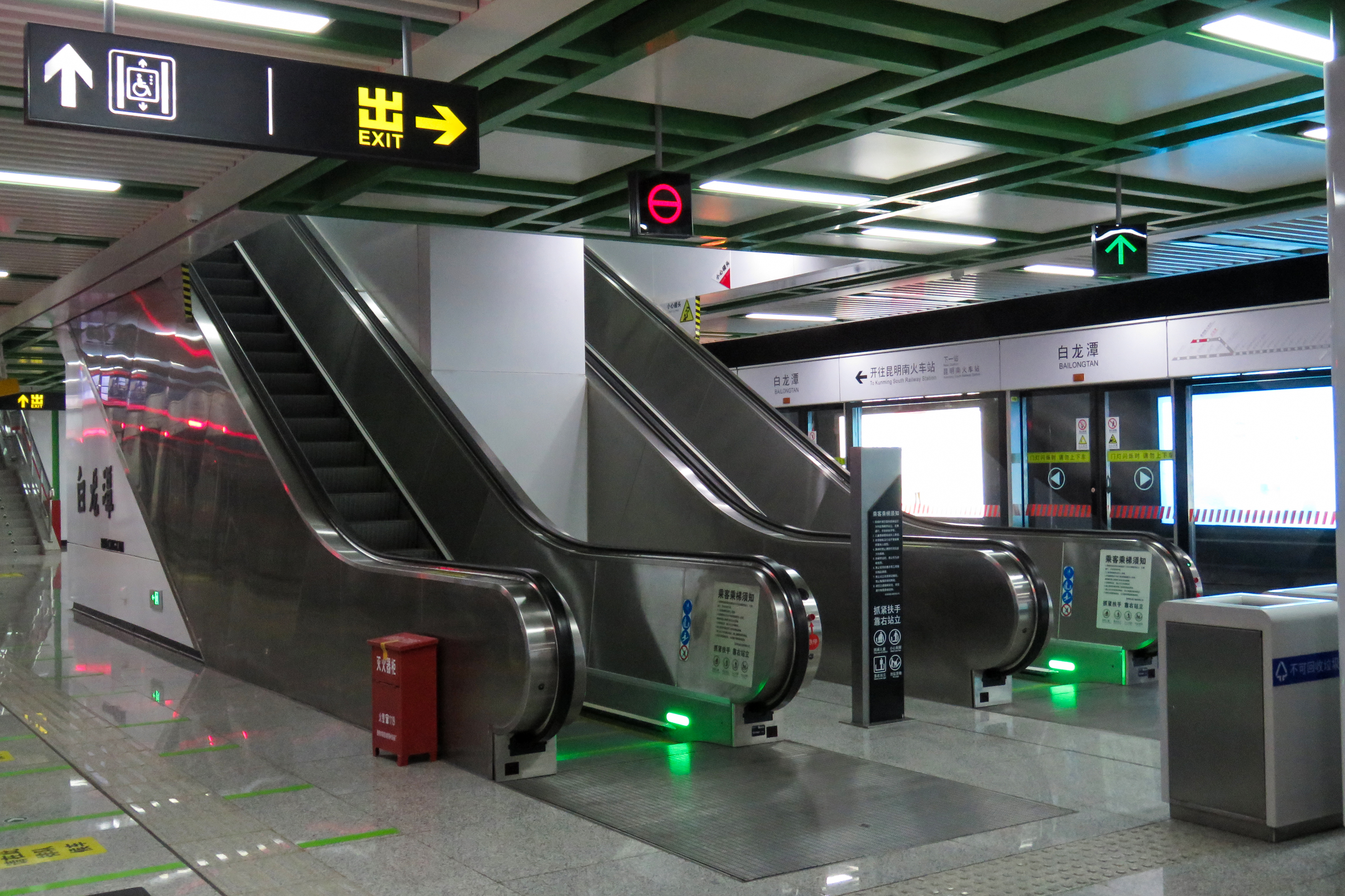 Second station...